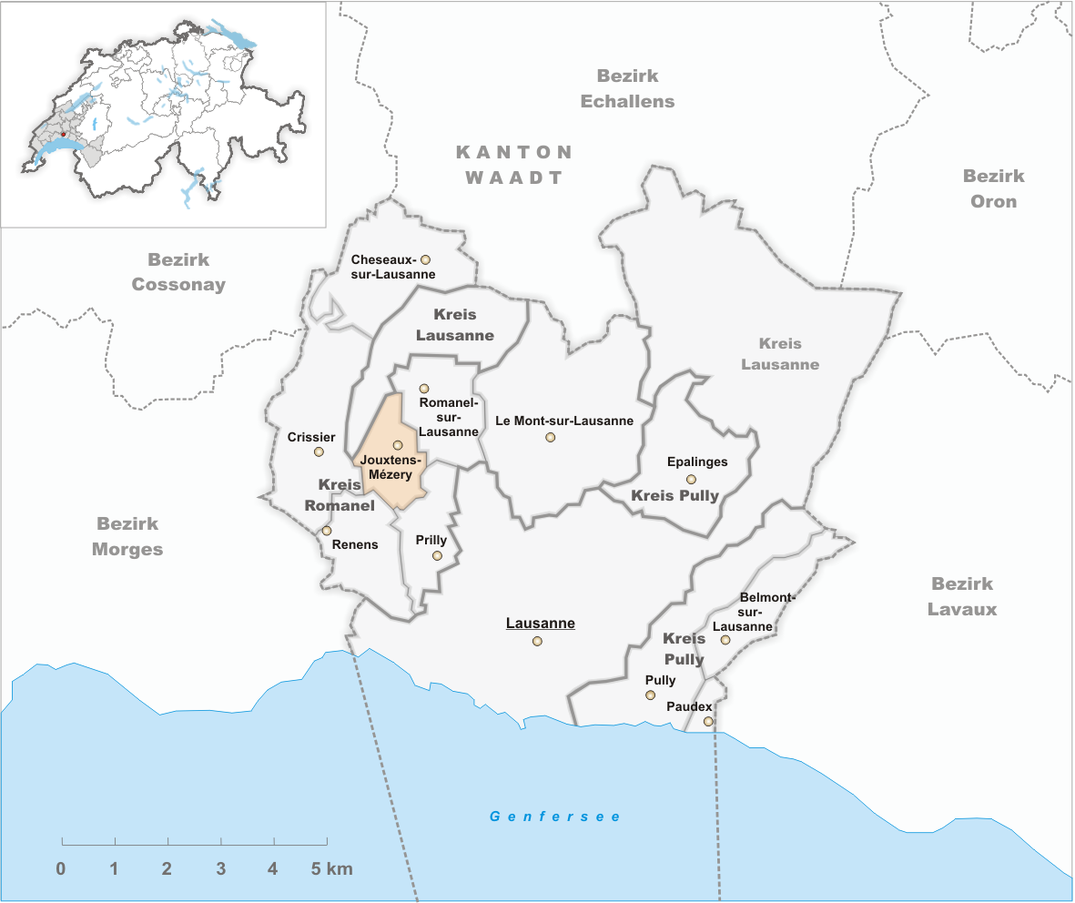 Municipality Jouxtens-Mézery